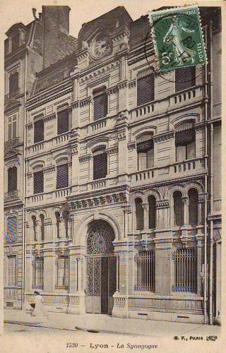 Post card of the great synagogue of Lyon